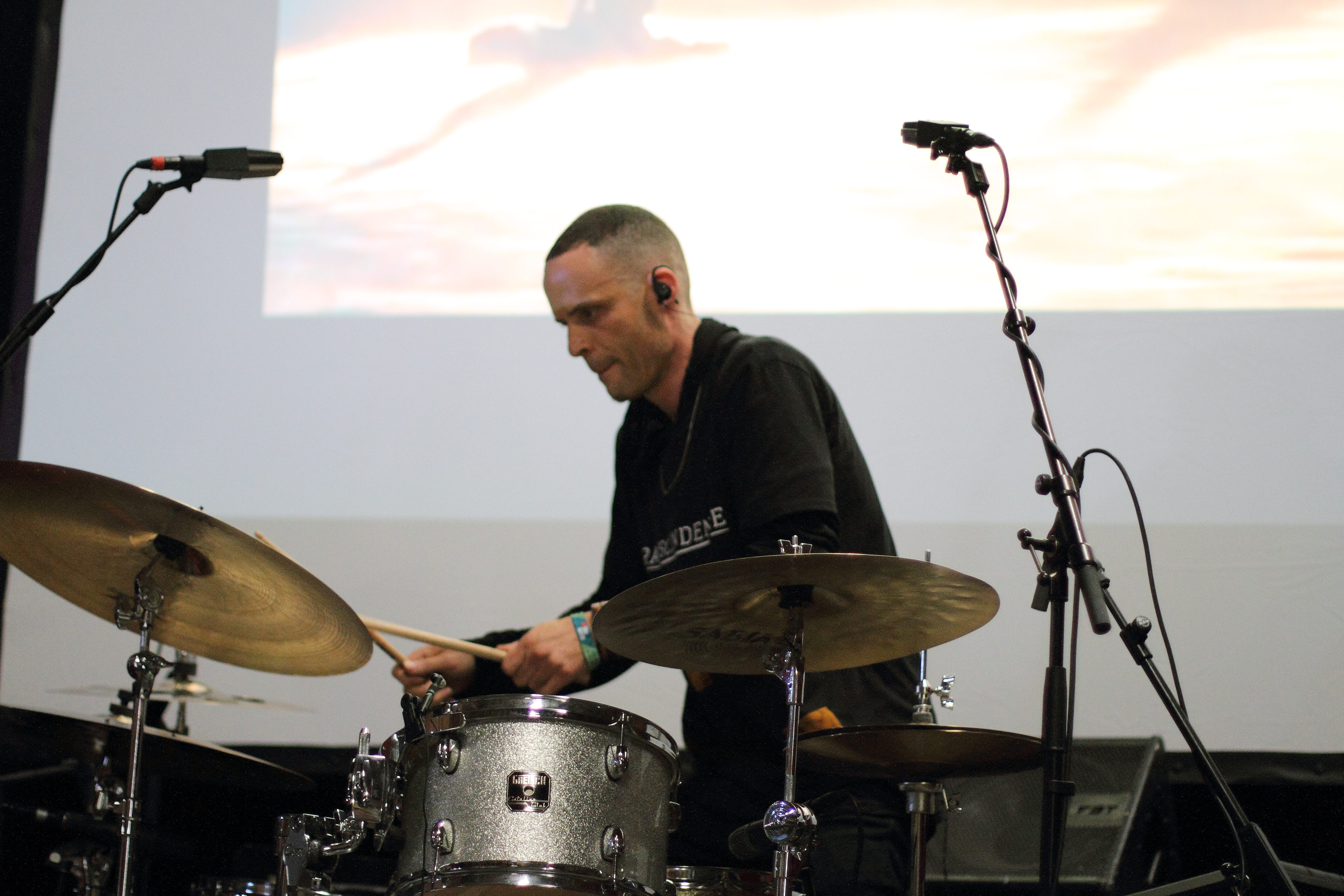 The Jaimeo Brown Transcendence at INNtöne Jazzfestival 2018.